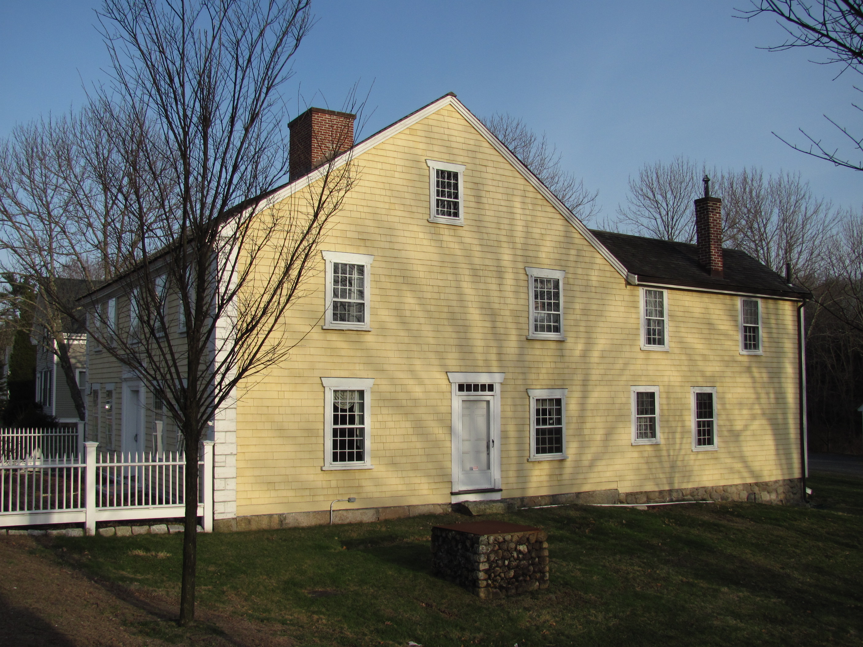 Stetson House, Hanover Massachusetts